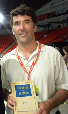 Paul Dewar at a 2009 NDP convention.